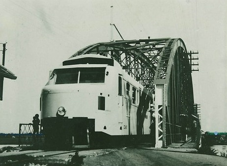 Cầu Phú Lương thành phố Hải Dương giai đoạn 1921 - 1935